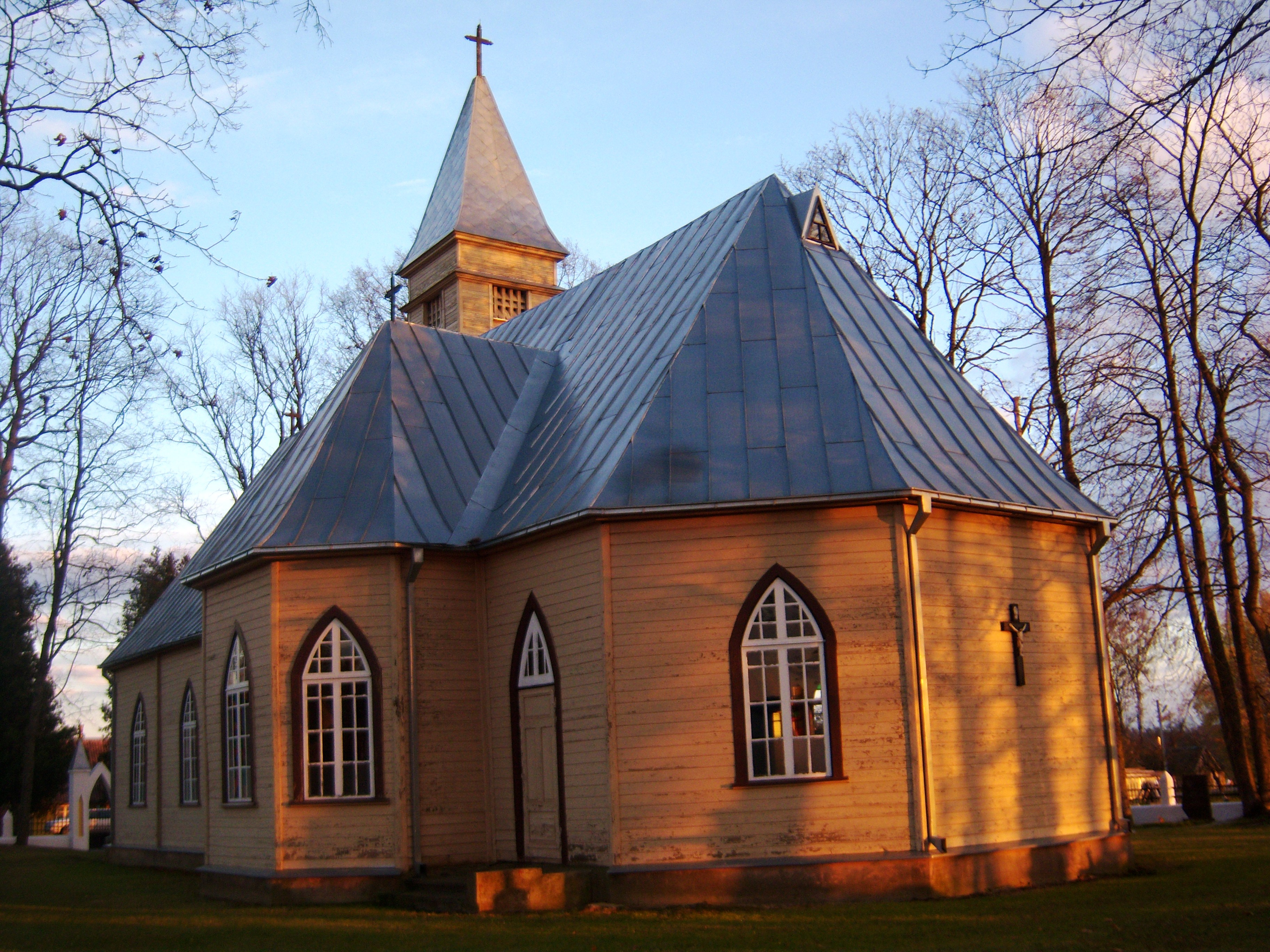 Roman Catholic Church in Geležiai, Panevėžys District, Lithuania